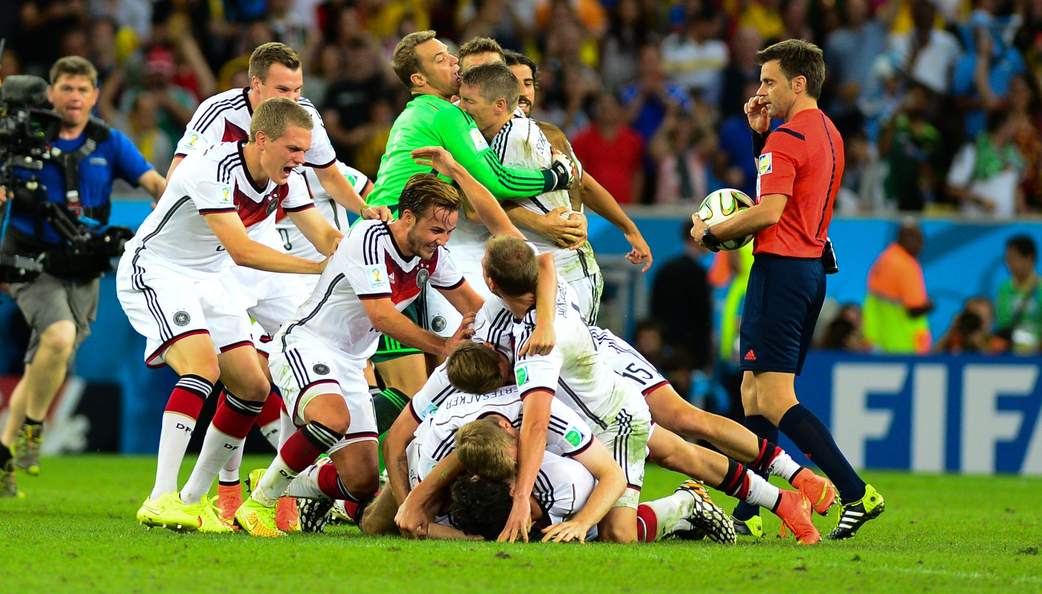 Germany wins it's 4th FIFA World Cup, after beating Argentina 1-0.